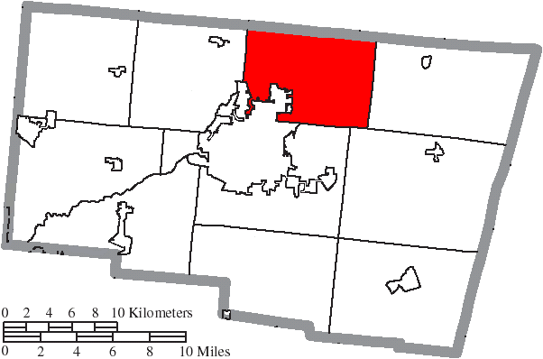 Map of the municipal and township boundaries of Clark County, Ohio, United States, as of the 2000 census, with the location of Moorefield Township highlighted. Township borders are shown only in unincorporated areas in order to differentiate incorporated and unincorporated areas more clearly.